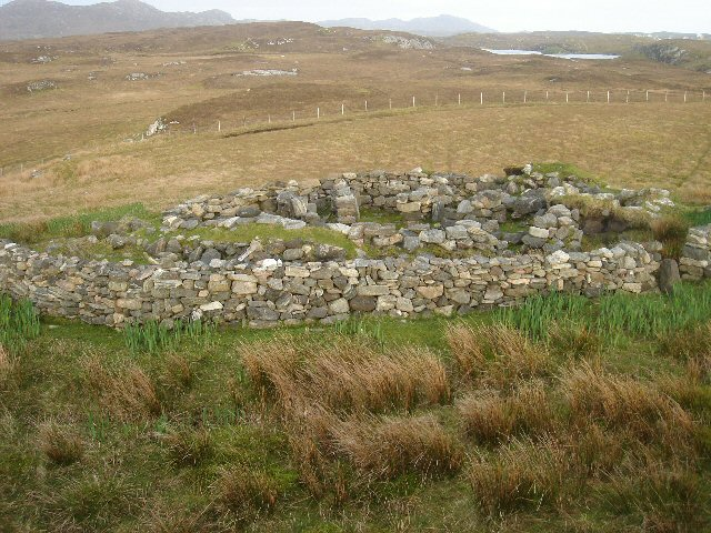 Grimsay Wheelhouse This is possibly the best preserved example of a wheelhouse on North Uist and is not shown on the OS maps. Difficult to find, it is located between Loch Hornary and the north coast of Grimsay. It dates from the Iron Age. Grimsay, Outer Hebrides, Scotland.